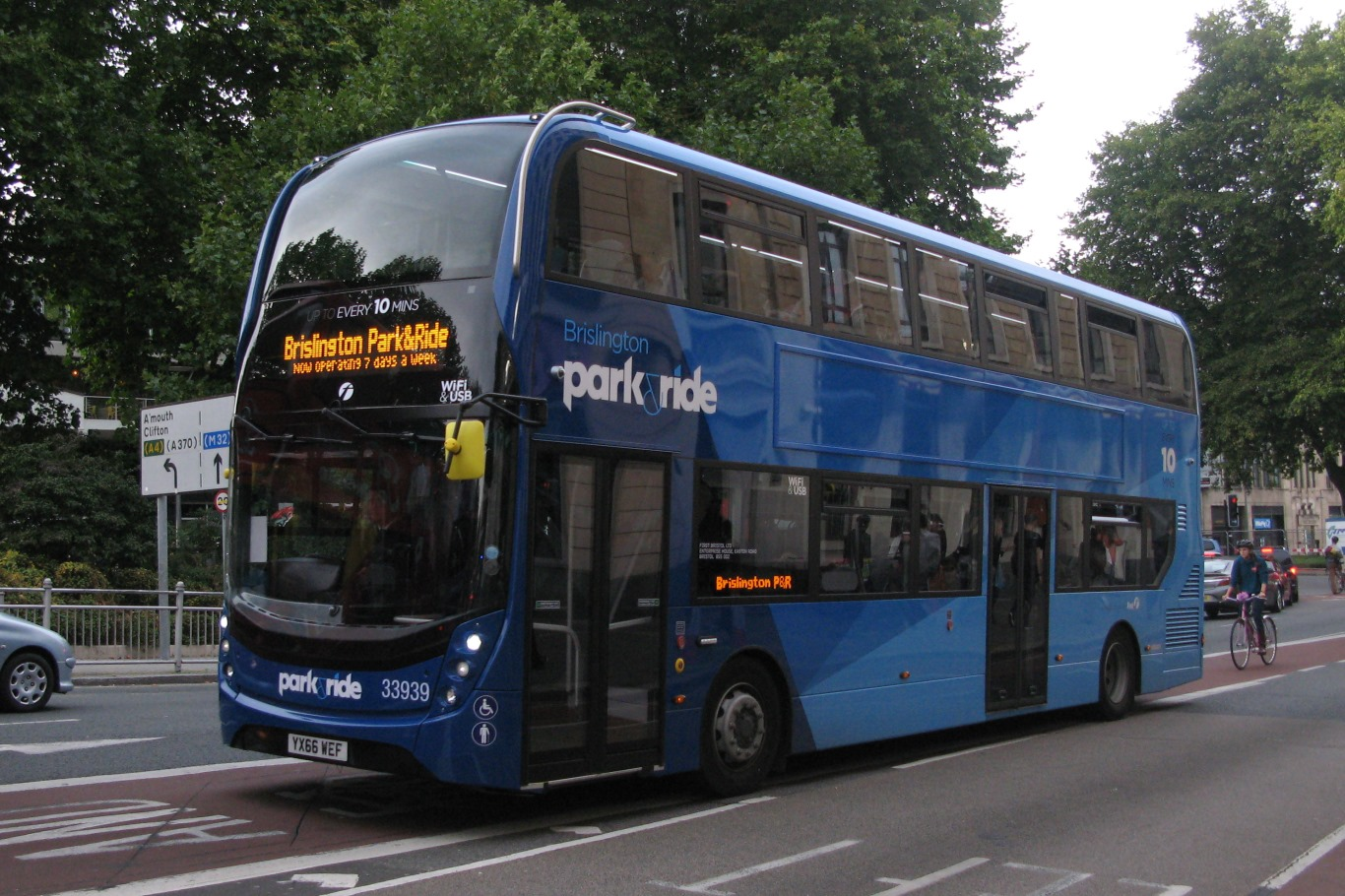 A brand new Bristol park and ride bus heads through the city centre towards the Brislington park and ride site. The Enviro400MMC is registered YX66WEF and is allocated number 33939 in the First Somerset & Avon fleet.